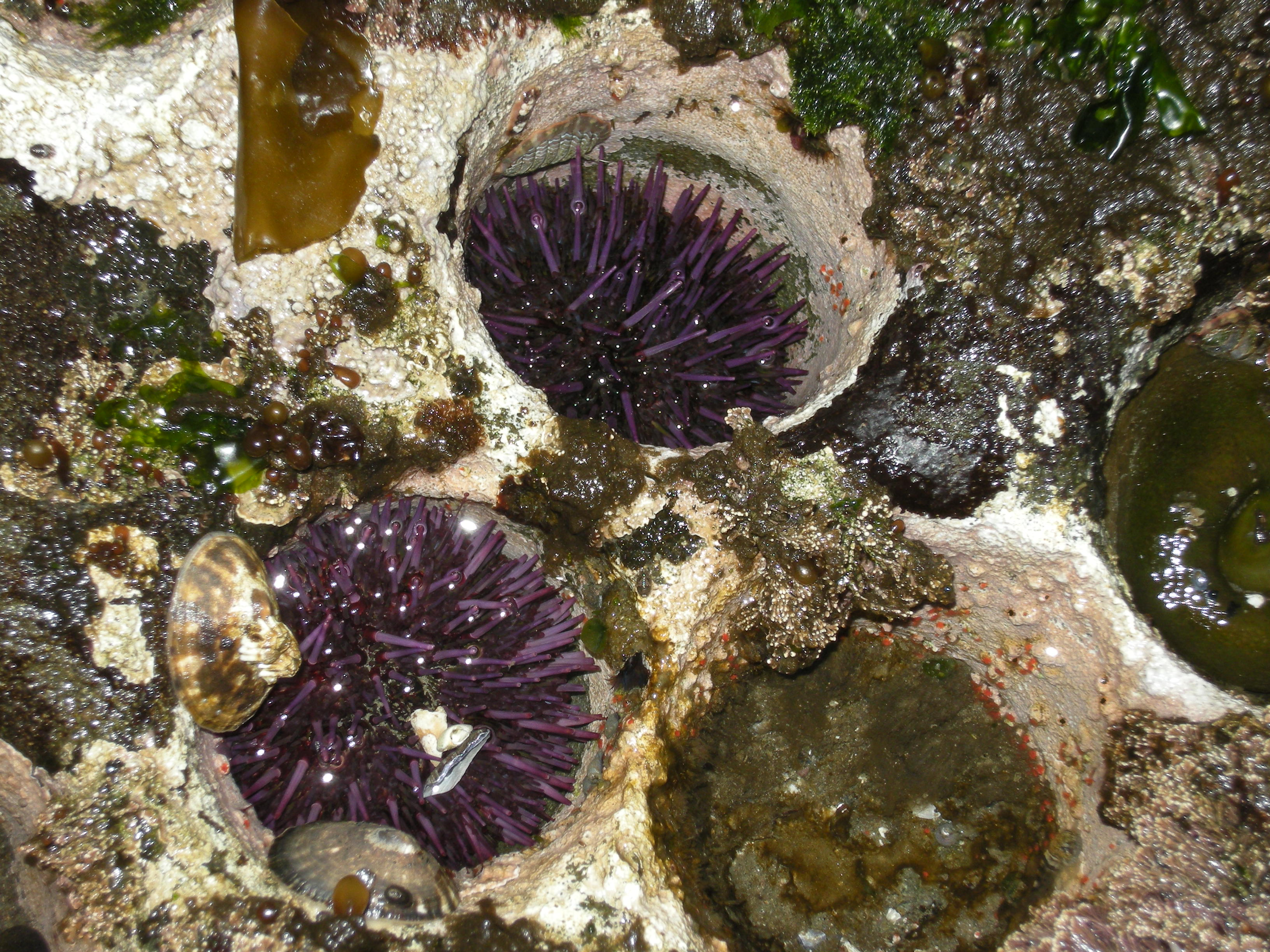 Purple sea urchins (Strongylocentrotus purpuratus) found in the tide pools of Cape Arago, Oregon, USA